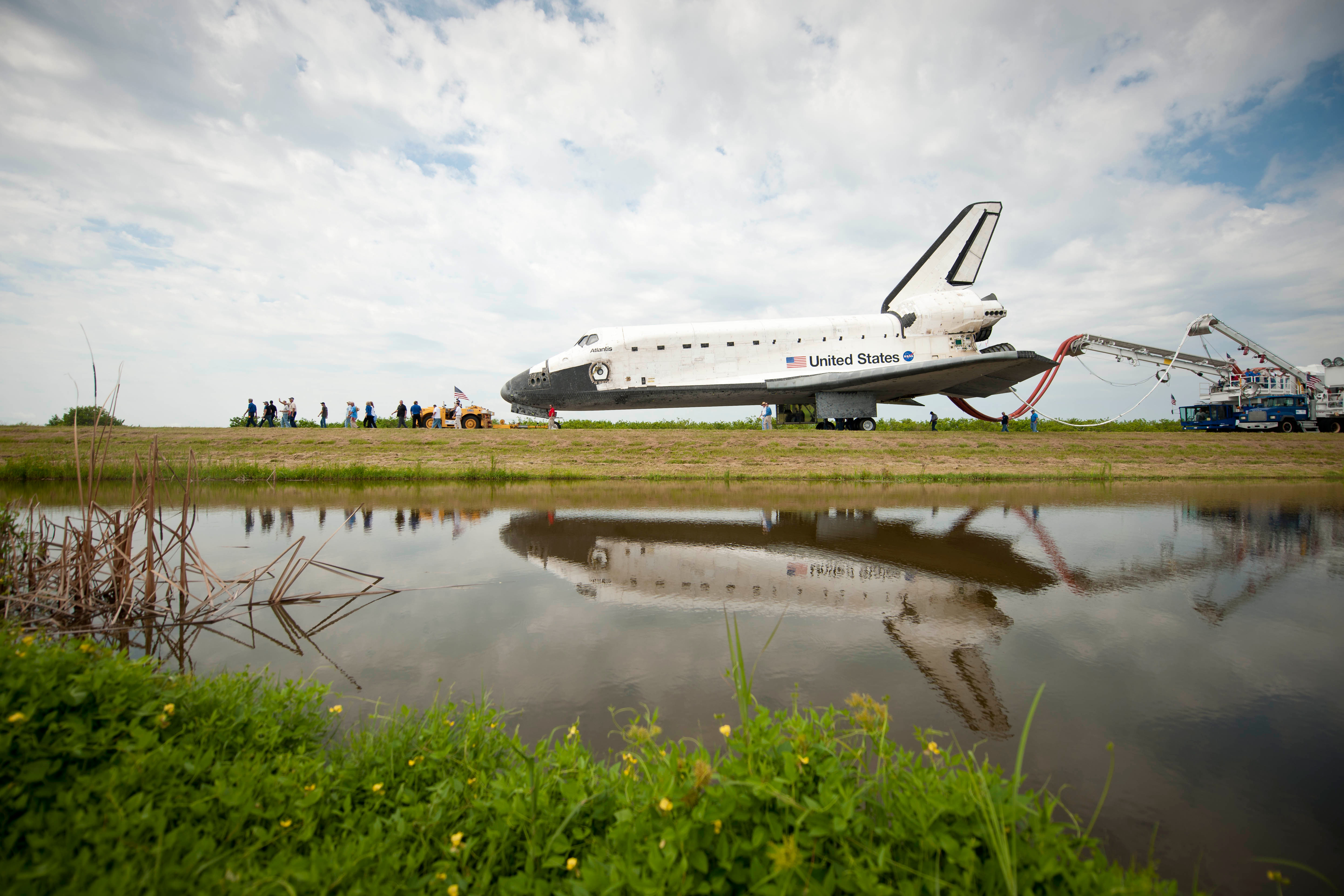 Space Shuttle Atlantis (STS-135) is rolled over to the Orbiter Processing Facility (OPF) shortly after landing at NASA's Kennedy Space Center Shuttle Landing Facility (SLF), completing its 13-day mission to the International Space Station (ISS) and the final flight of the Space Shuttle Program, early Thursday morning, July 21, 2011, in Cape Canaveral, Florida.